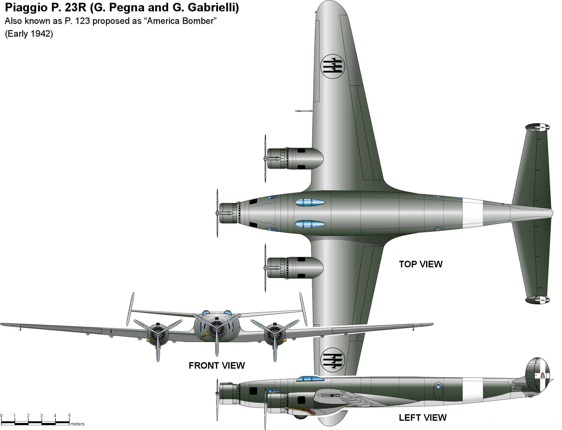 Piaggio P 23R Military wartime version